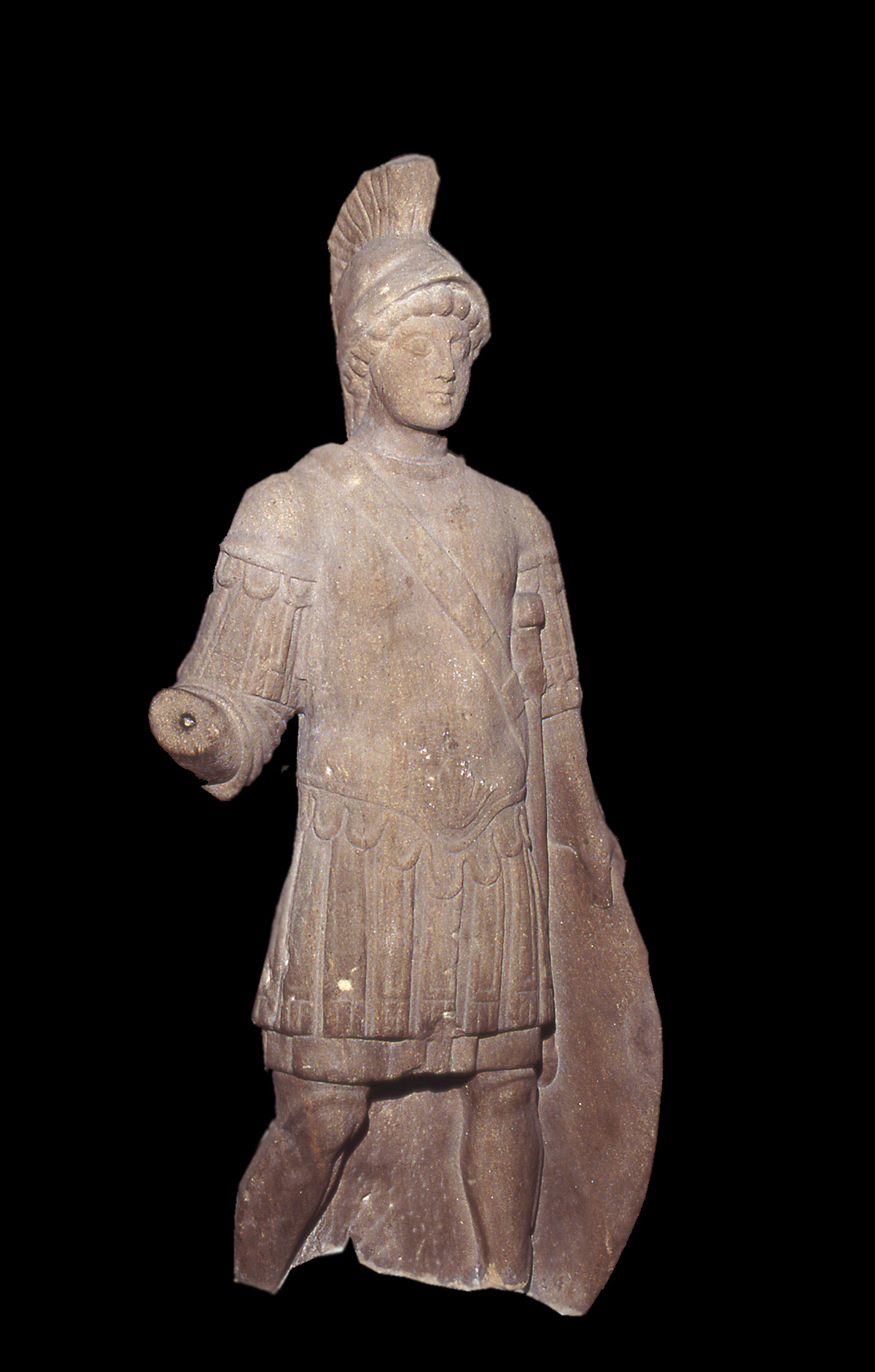 Man with helmet, breast plate, greaves and sword. His hand rests on shield. Described in Eboracum as 'Statue, life-size, of gritstone, 5ft 10ins high excluding the modern feet and base. The subject is a young man with crested helmet of Greek type, curly hair, a metal breastplate with elaborate lappets at skirt and sleeves, a tunic, a longish sword slung on shoulder-strap, and greaves. His right hand (now missing) probably held a spear, his left rests on an oval shield with a large plain round boss. The panoply is not of legionary type, for either men or officers, and the statue probably represents Mars. Found with [three altars] at St Mary's Convent, Blossom Street, but probably deposited in post-Roman times.'